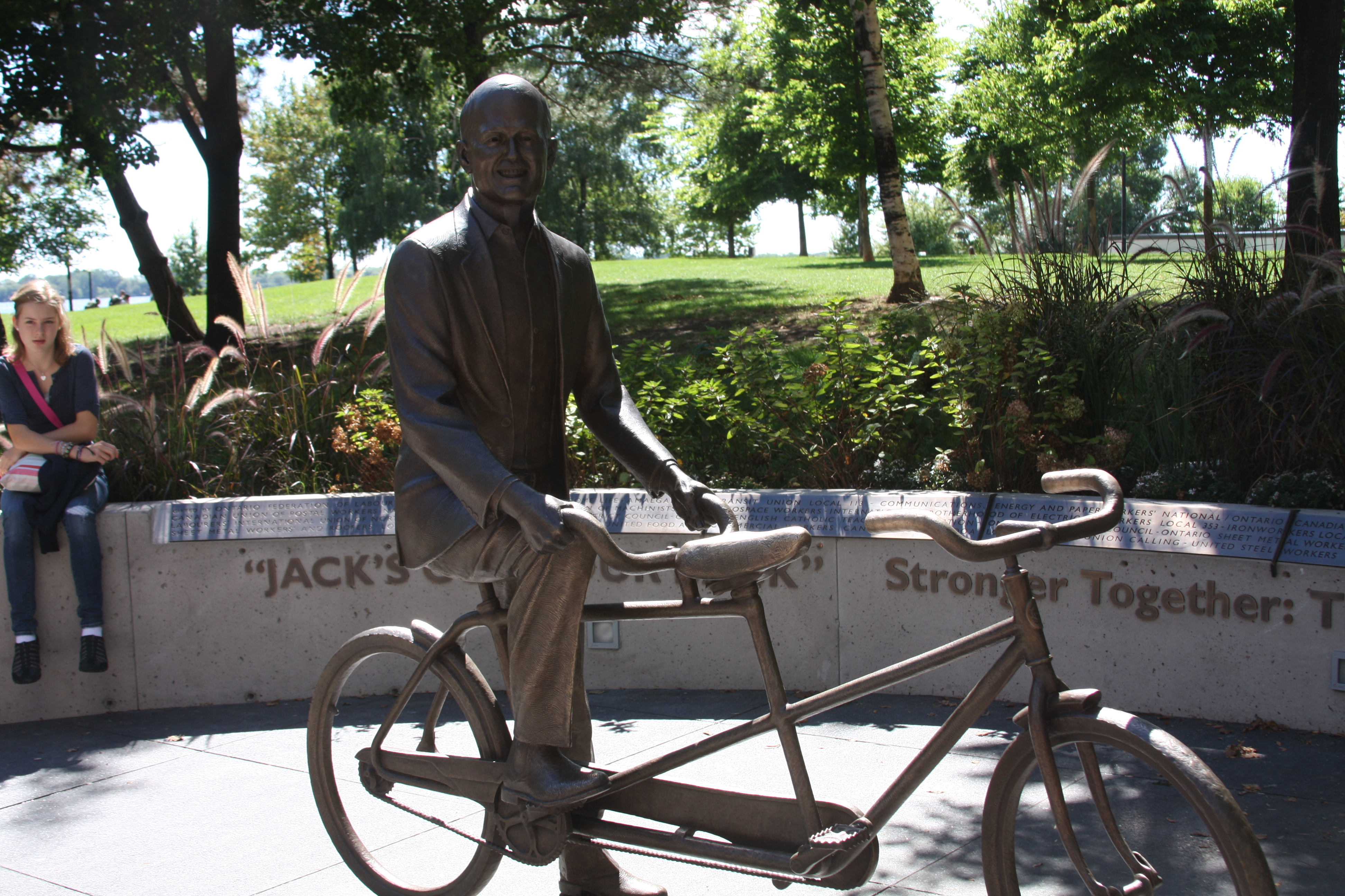 Statue of former NDP leader Jack Layton.